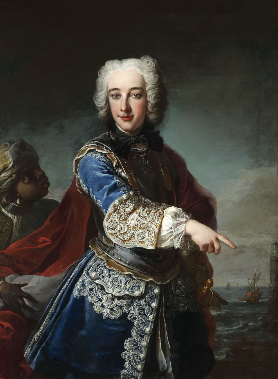 Portrait painting of Jacobo Fitz-James Stuart y Colón de Carvajal, 10th Duke of Veragua and 3rd Duke of Berwick